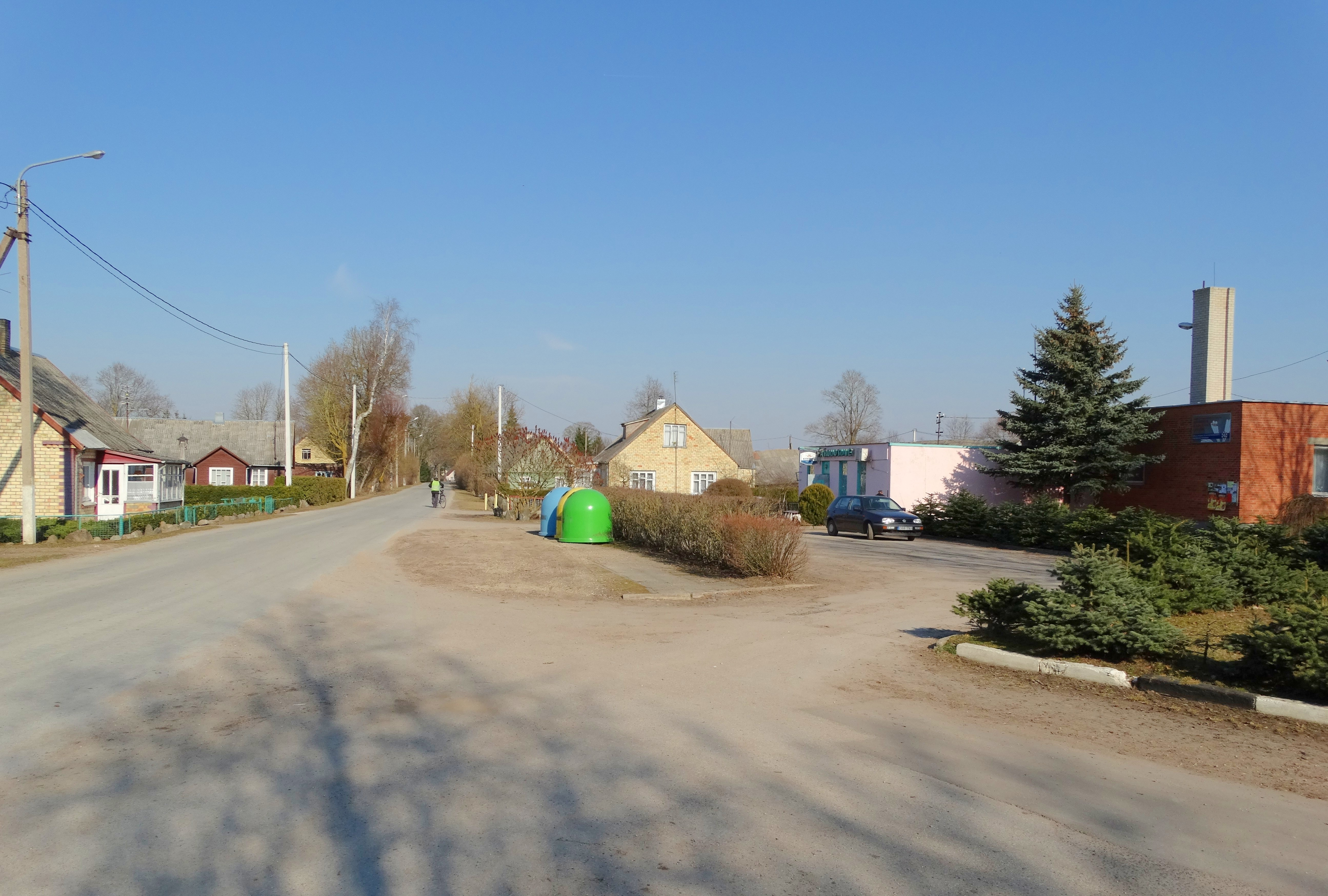 Šiupyliai, Šiauliai district, Lithuania